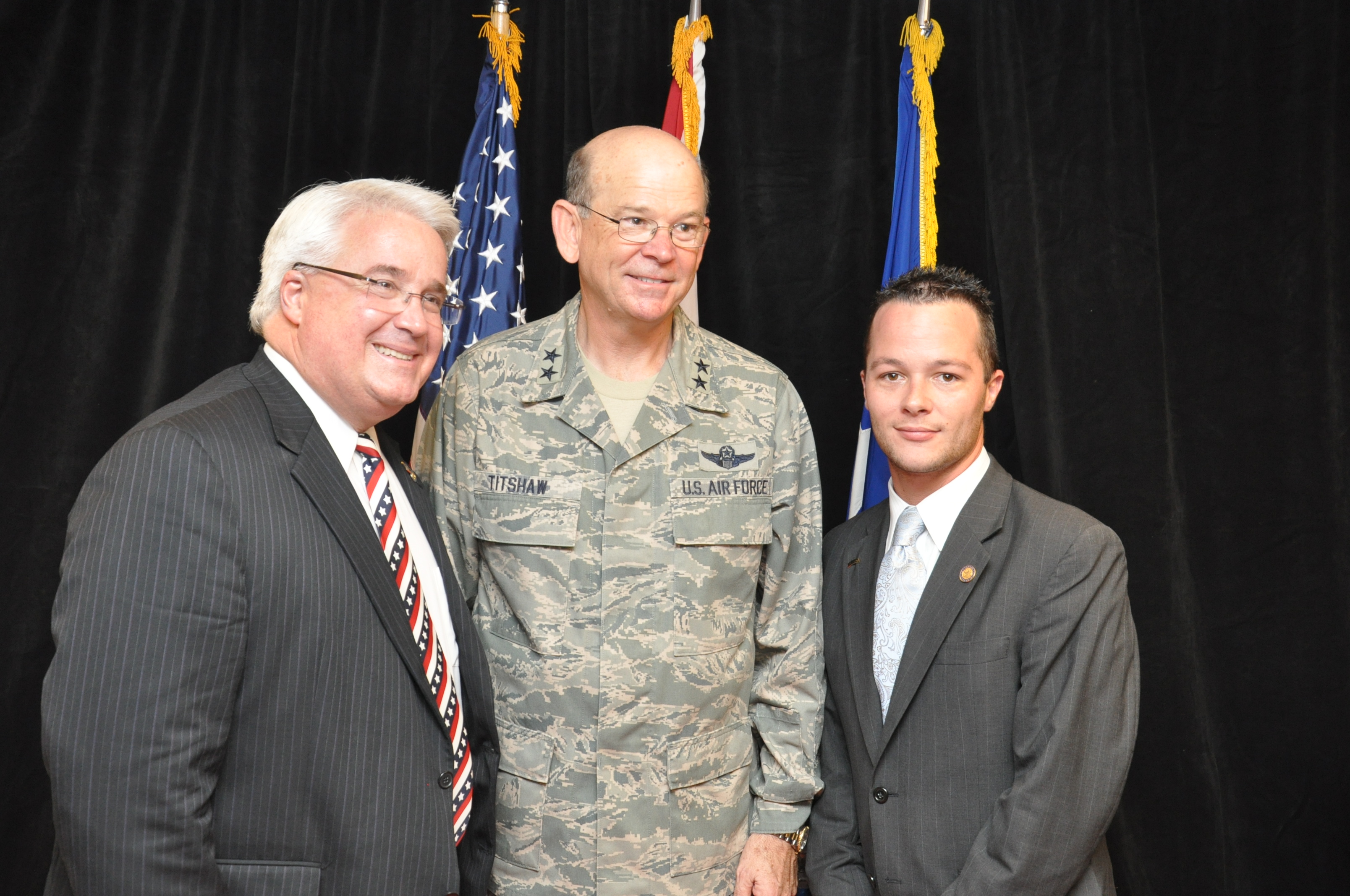 State Rep Kevin Ambler and Legislative Aide Mike Norris, with Maj. Gen. Emmett Titshaw